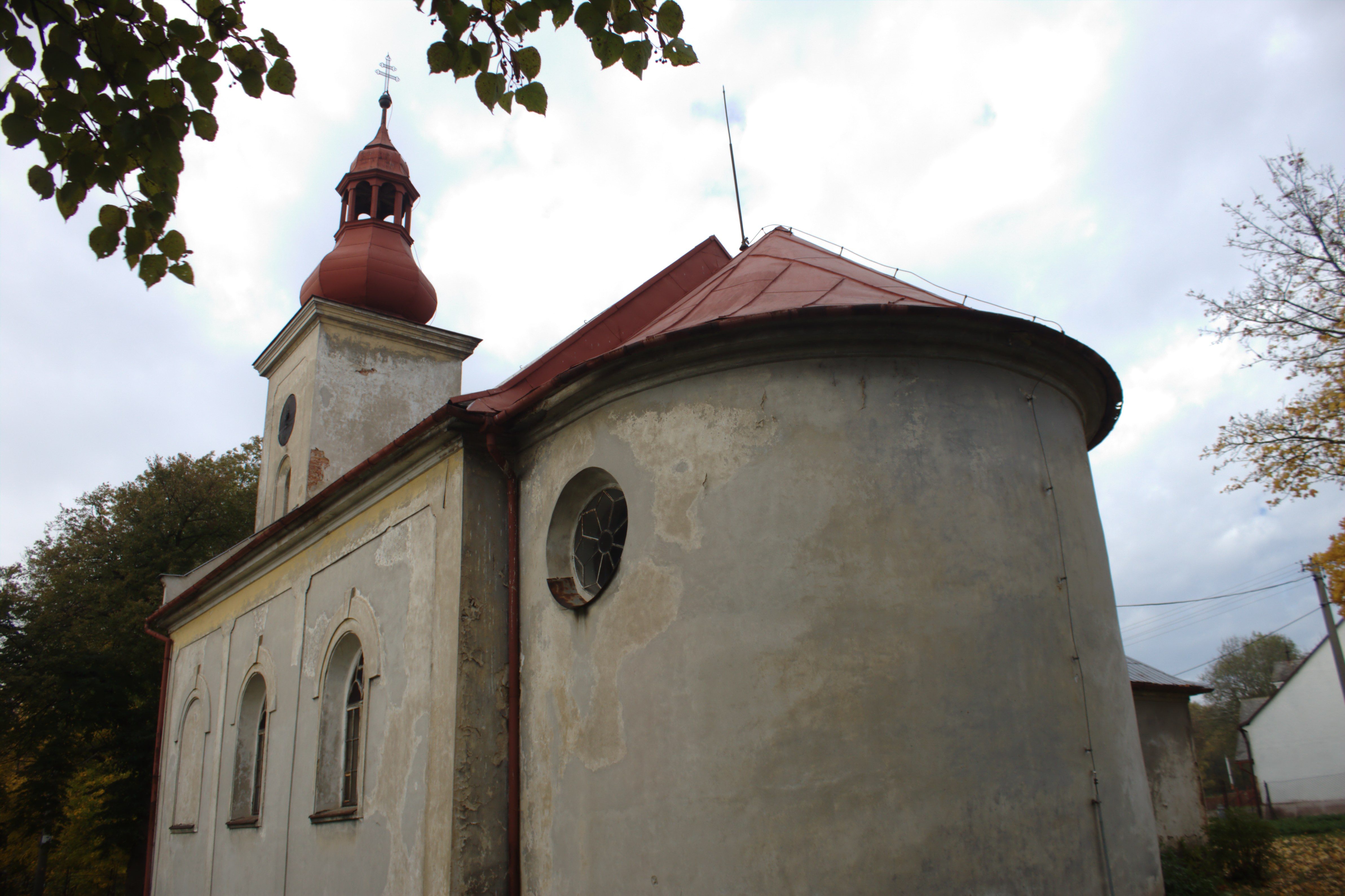 A church in the village of Křišťanovice, Moravian-Silesian Region, CZ